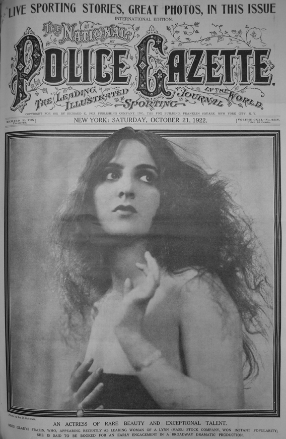 Public Domain cover image from 1922 National Police Gazette with actress Gladys Frazin (1900–1939). She was later in several silent films.